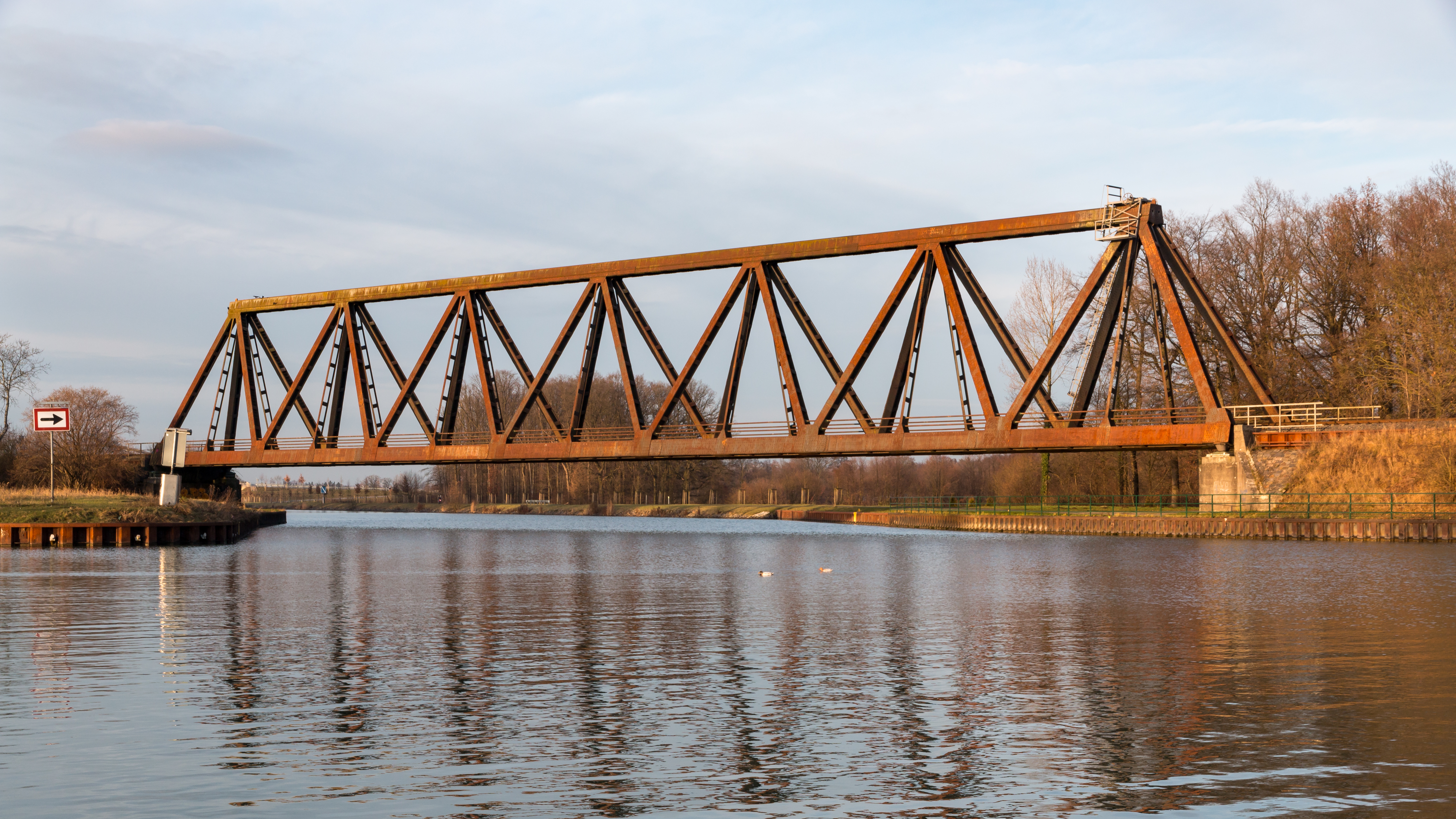 Railway bridge, Lüdinghausen, North Rhine-Westphalia, Germany This image shows a heritage building in Germany, located in the North Rhine-Westphalian city Lüdinghausen (no. A/054).